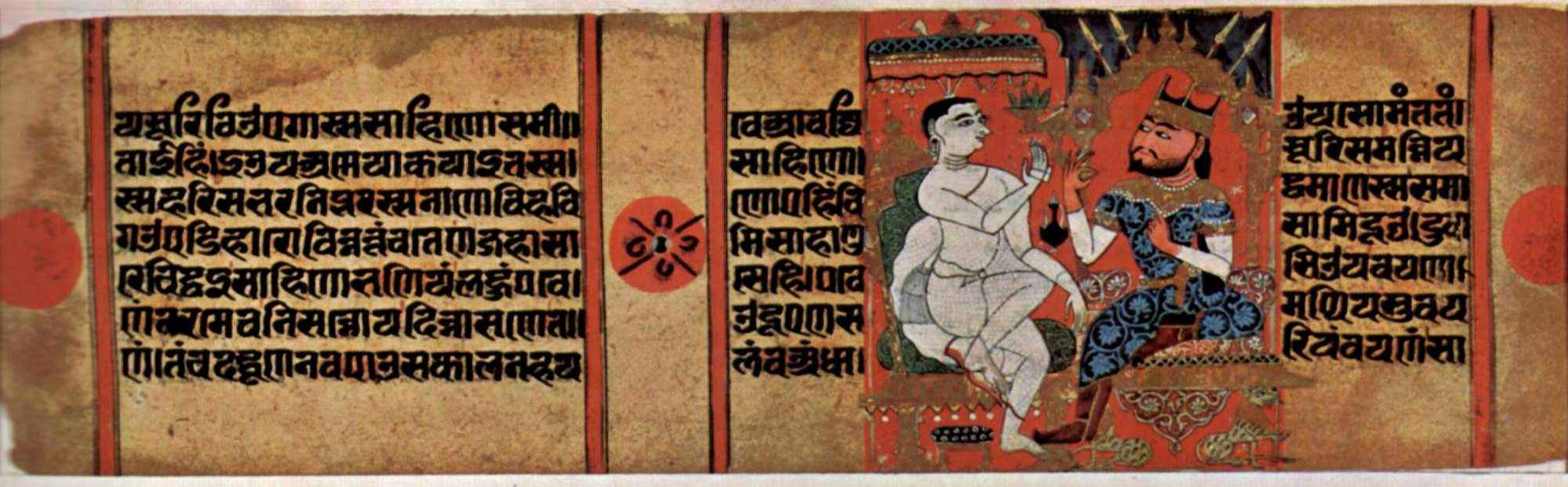 2 Kâlakâ and the Saka King. Page from Kalakacharyakatha, ca. 1411, Prince Wales Museum, Mumbai